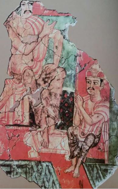 Fragment of a Miran fresco describes a "Dream Interpretation" scene, 4th century.